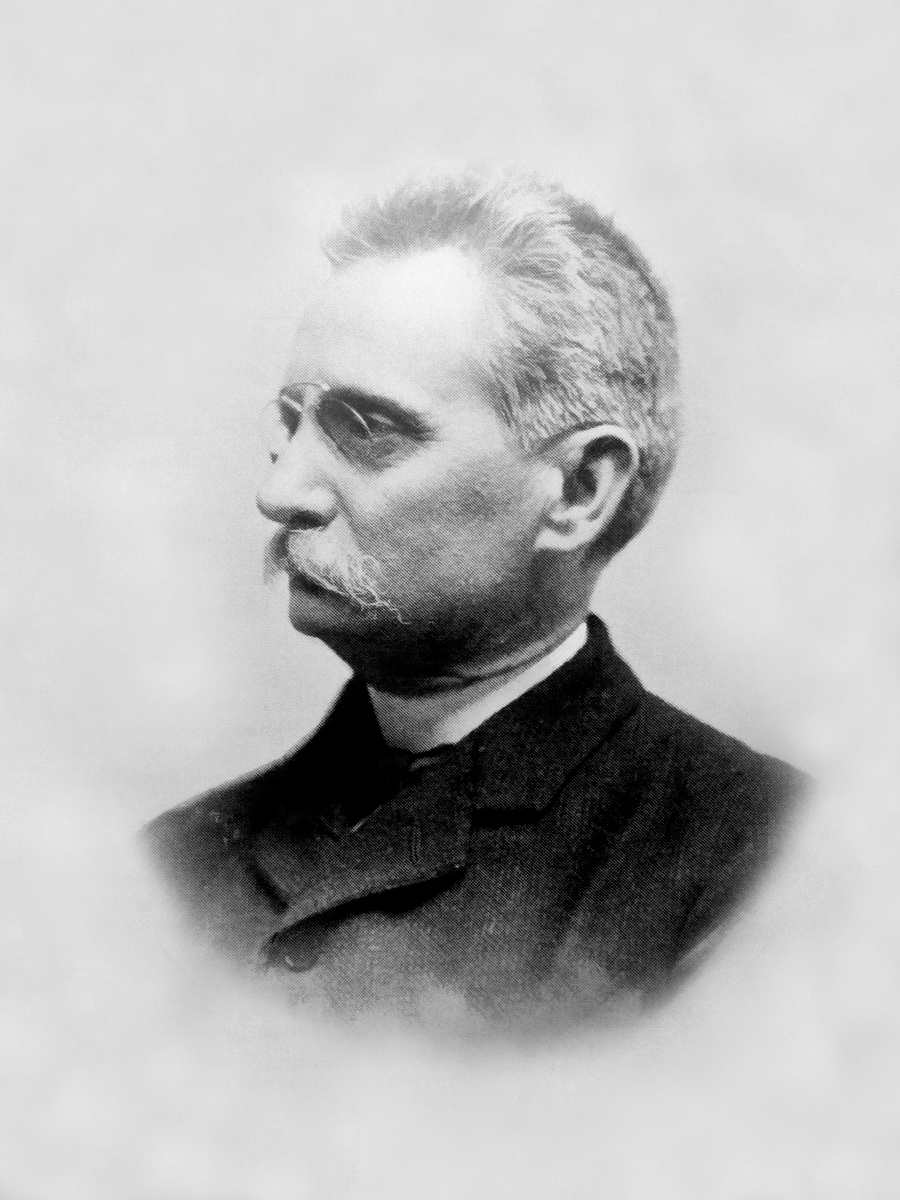 Photographical portrait of the renowned Spanish architect